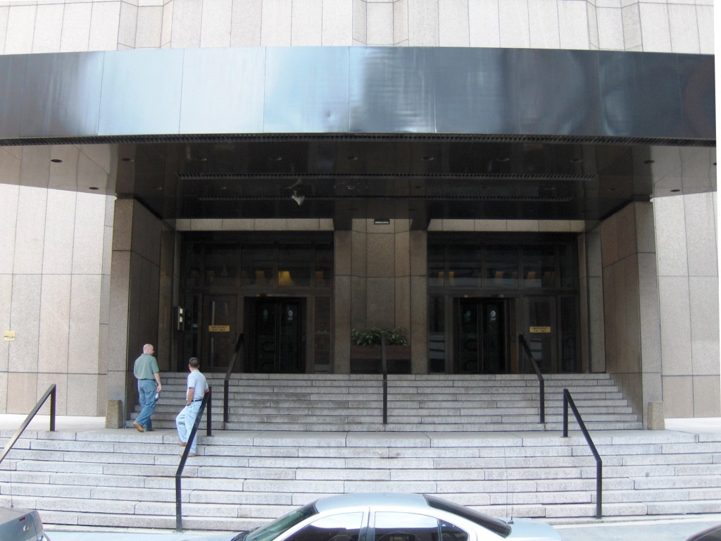 Street level view of 33 Thomas Street entrance showing elevated foyer. I took this photo on July 27, 2007.